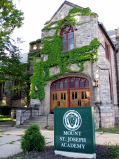 15 Jewett Ave., Buffalo, NY; northwest corner of Jewett Ave. and Main St.; formerly Mount Saint Joseph Academy; previously Central Presbyterian Church